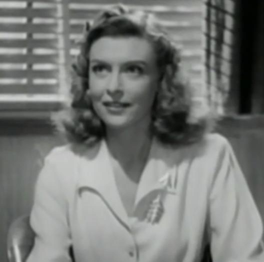 Ann Doran in The Strange Love of Martha Ivers - cropped screenshot